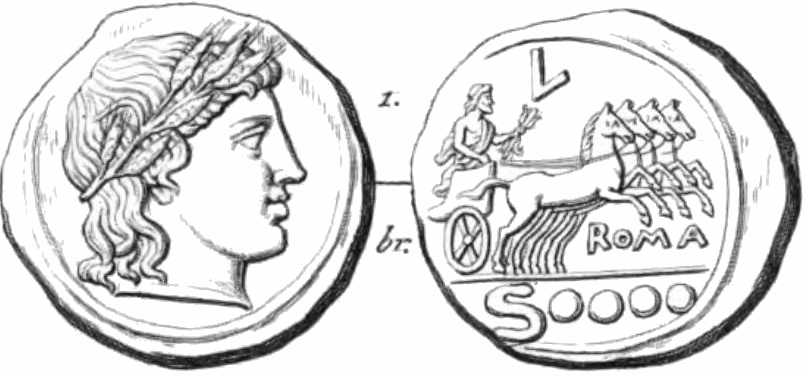 Aes grave from: "Le monete attribuite alla zecca dell'antica città di Luceria Dextans, a rare Roman coin. Mint of Luceria, in Apulia Head of Ceres Iuppiter in quadriga. Below ROMA. In exergue: S•••• N.B. The image at reverse was considered by mistake a Iuppiter and draw in this way. On the coin there is a Vittoria. (see: File:Aes grave IV 1.jpg)